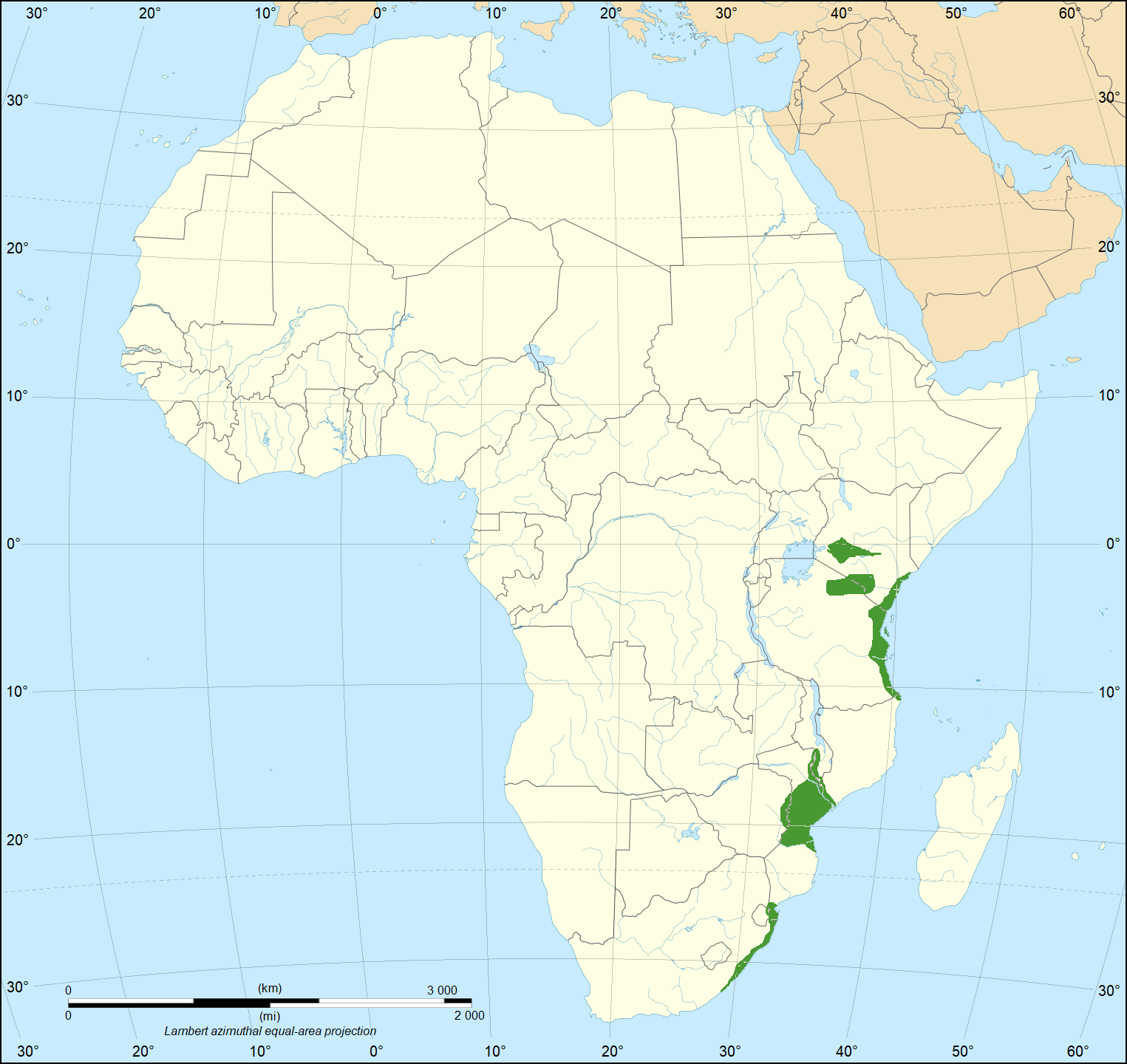 The geographical range of the Eastern green mamba in Africa. Data on rage is from (2018). "The medical threat of mamba envenoming in sub-Saharan Africa revealed by genus-wide analysis of venom composition, toxicity and antivenomics profiling of available antivenoms". Journal of Proteomics 172: 173–189. PMID 28843532. Base map is File:Africa map blank.svg